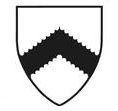 Coat of arms of David Holbach (d. 1422/3)